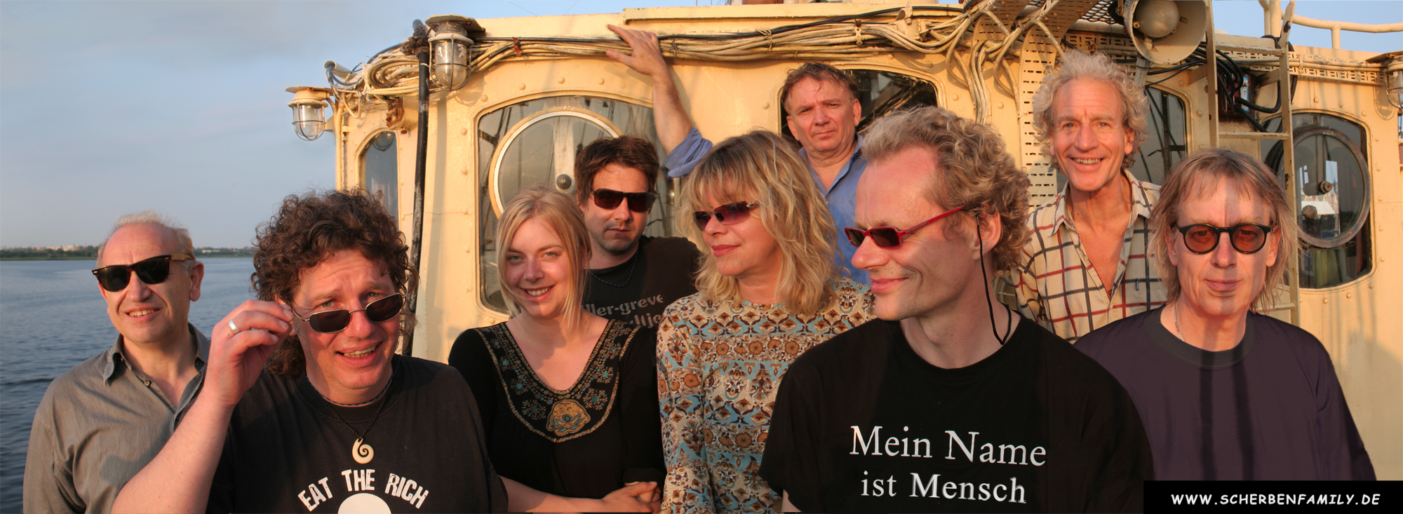 Ton Steine Scherben Family (original members of influential german band TON STEINE SCHERBEN alias TSS). The picture was taken during the 33rd G8 summit Heiligendamm at the Rostock harbour, Germany, June 07, 2007. On this foto from left to right: Nikel Pallat, Marius del Mestre, Lisa Jane Olbrich, Marco Schmedtje, Angie Olbrich, Funky K. Goetzner, Martin Paul, Jörg Schlotterer, Kai Sichtermann